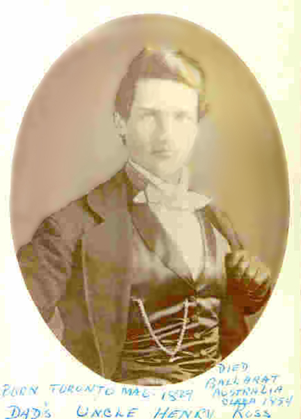 Captain Henry Ross, the Canadian designer of the Eureka Flag, flown during the Eureka Rebellion at Ballarat, Victoria, Australia in November 1854.